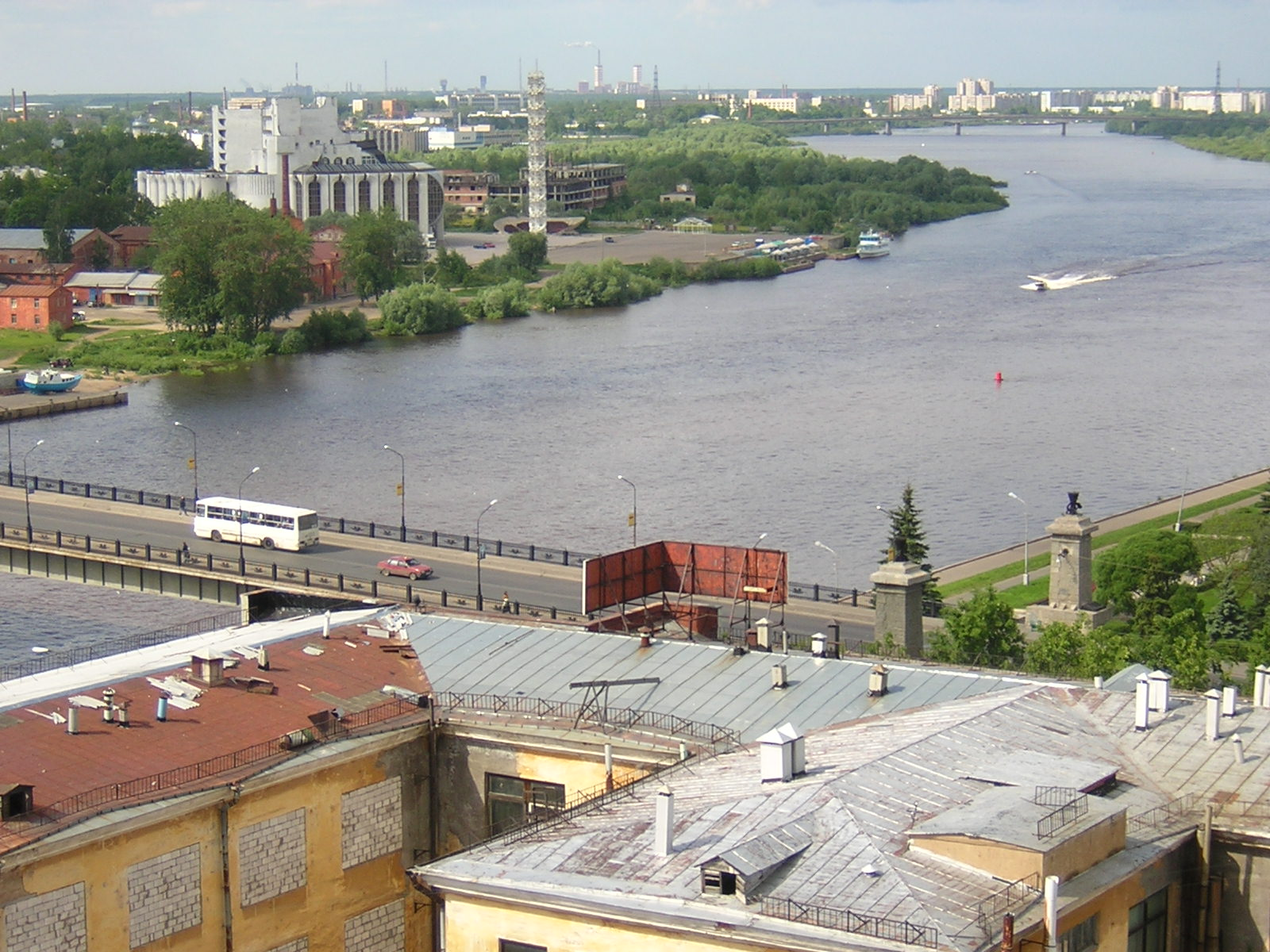 View at Volkhov river and the theatre. Veliky Novgorod, Russia. Taken from a chimney.